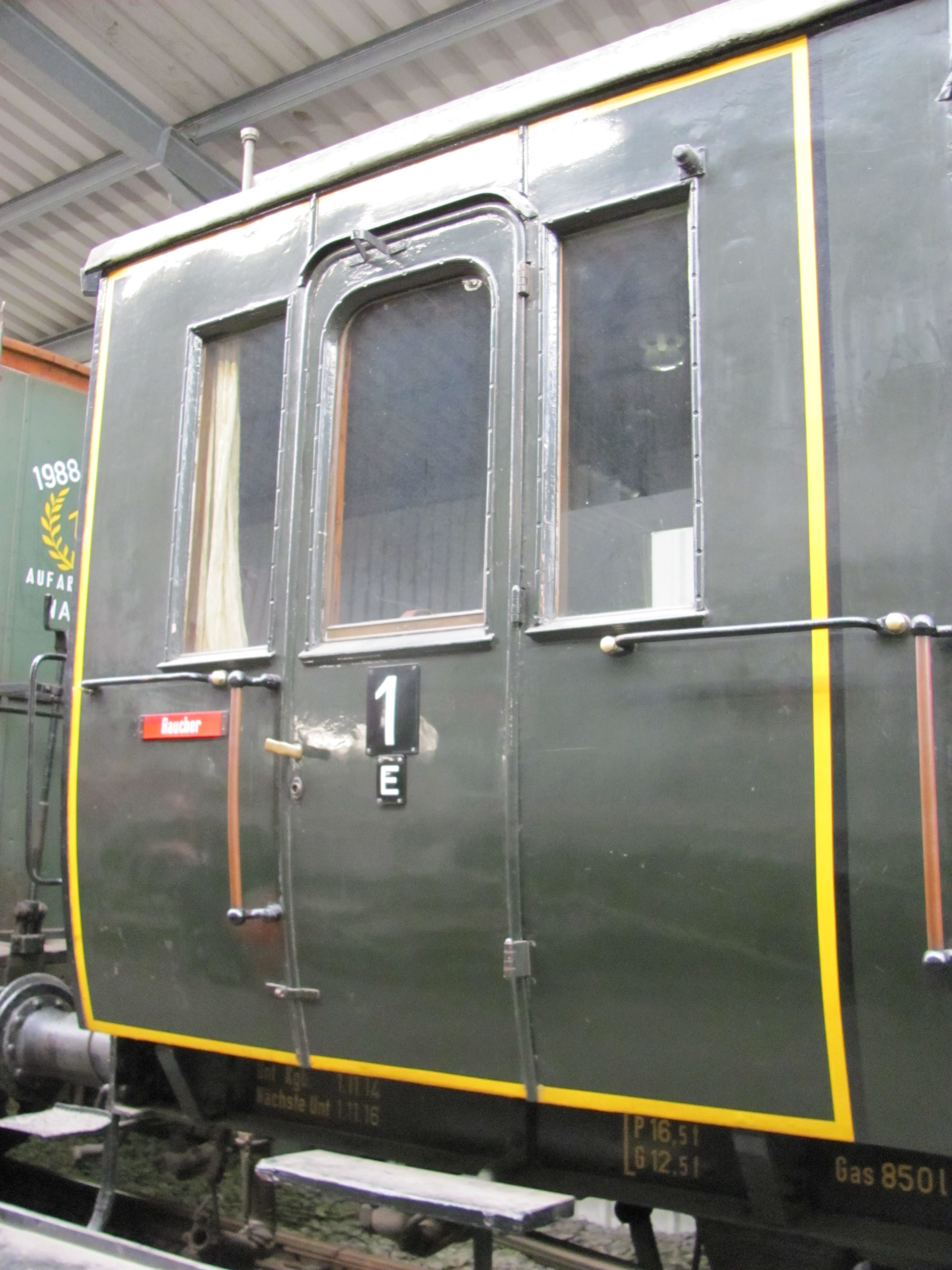 Prussian railway coach with compartments 1st / 2nd class: First class compartment